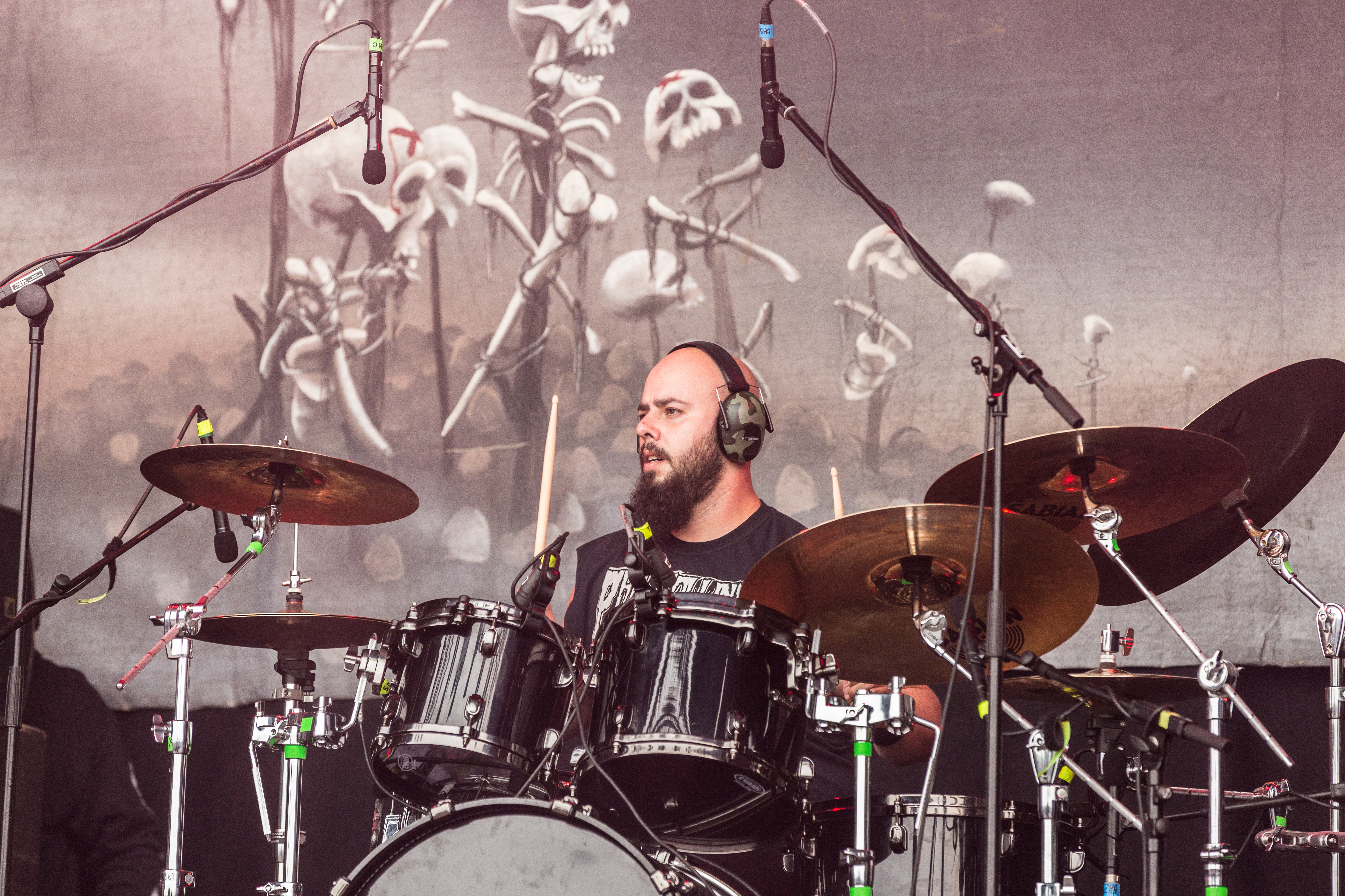 The American thrash metal band Demolition Hammer at the Party.San Metal Open Air 2017 in Obermehler-Schlotheim/Germany.